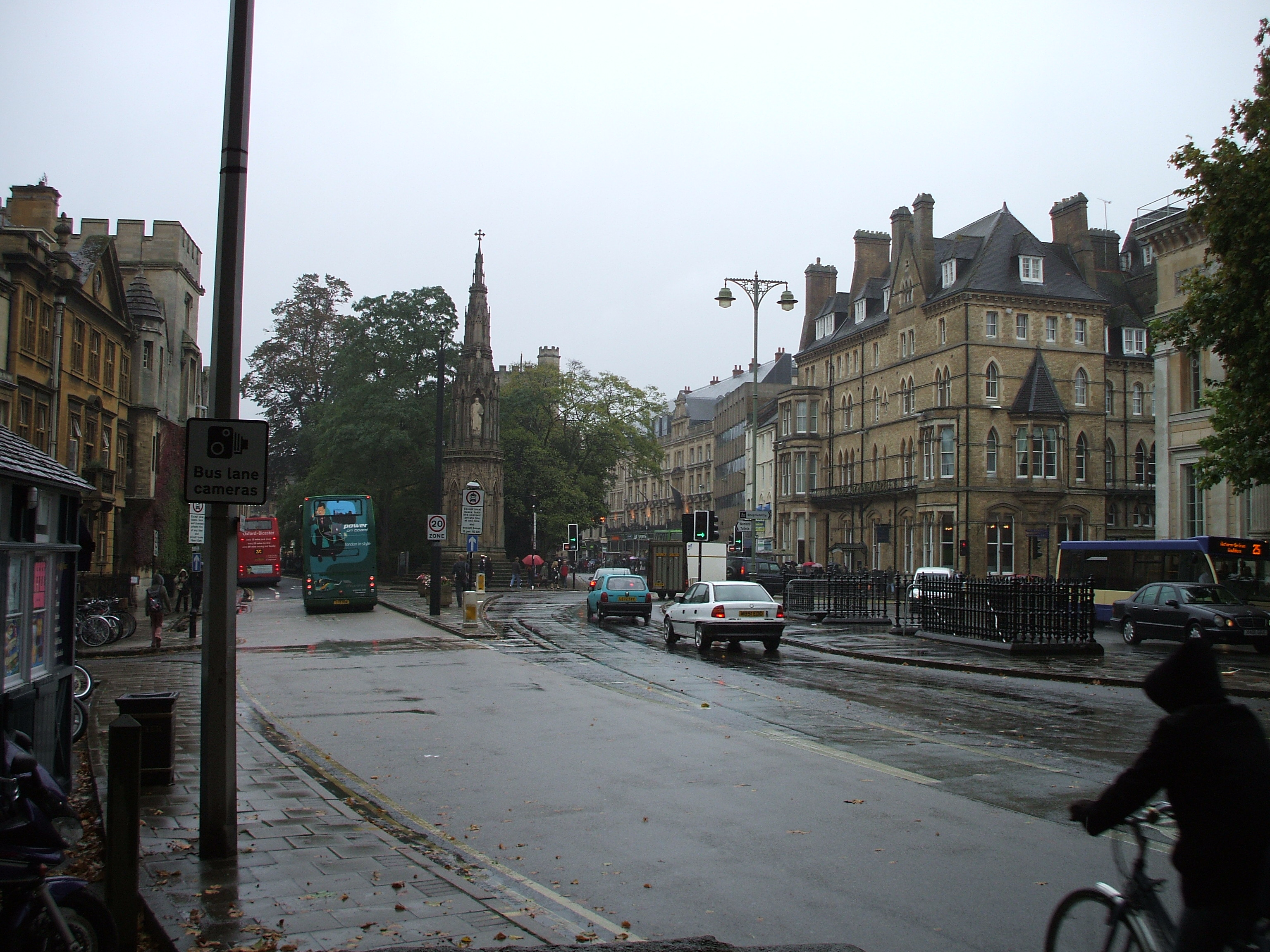 View down Magdalen Street, incorporating the Marytrs Memorial and the west end of Balliol College